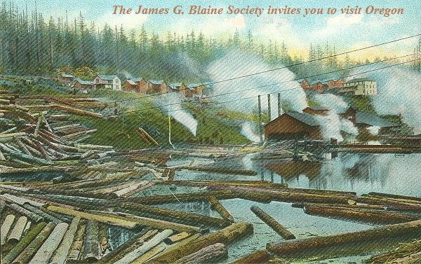 Penny postcard of Oregon logging camp at Bridal Veil, Oregon; the postcard was published in 1910 for the J.K. Gill Company of Portland, Oregon; it is entitled "Logging Camp, Bridal Veil Falls, Oregon"